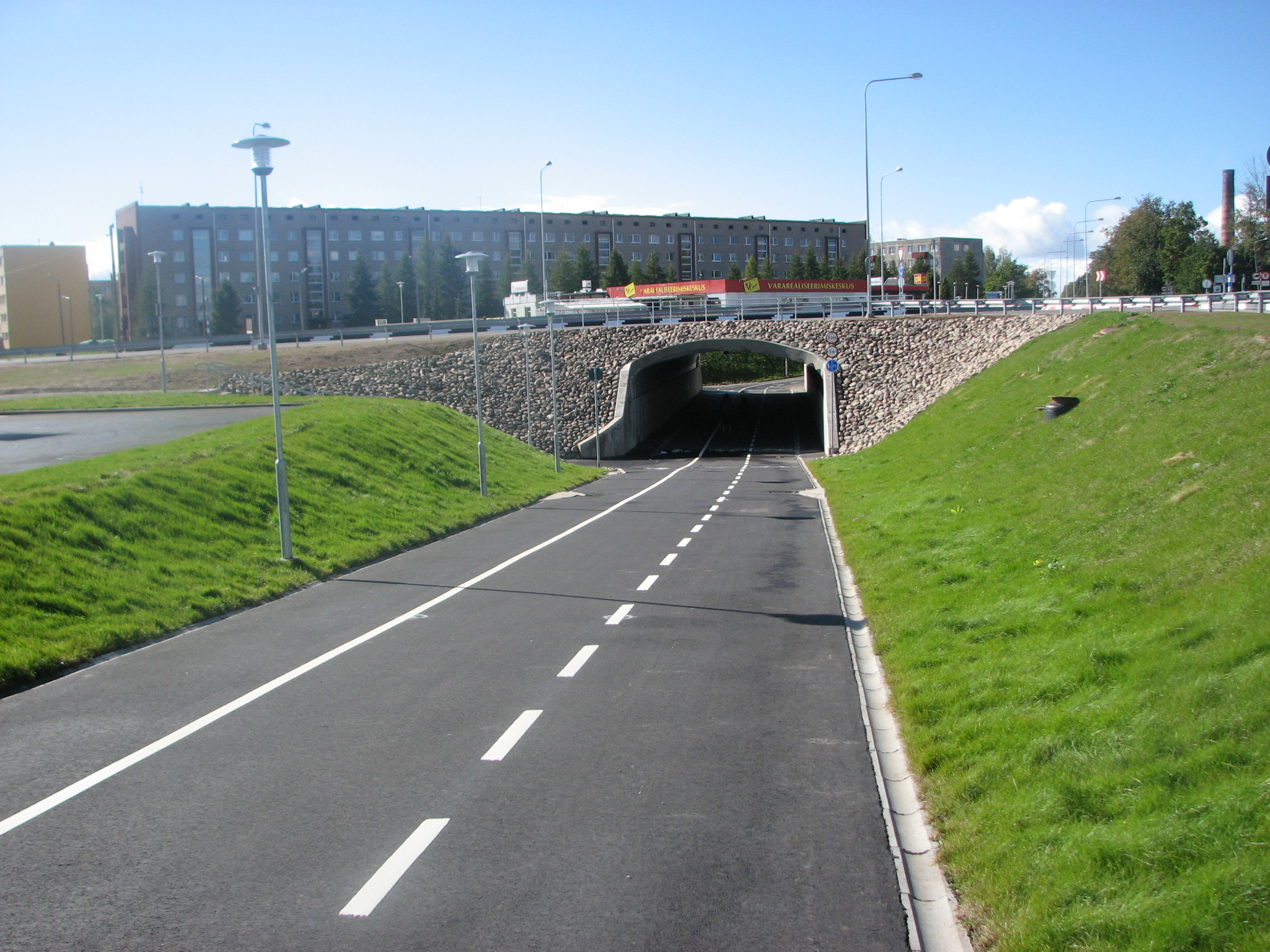 Subway under crossroad of Ringtee street and Aardla street in Tartu, Estonia